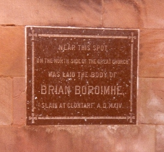 St Patrick's (COI) Cathedral, Armagh: Plaque on side of cathedral marking the nearly grave of king Brian Boru (Brian Boroimhe)